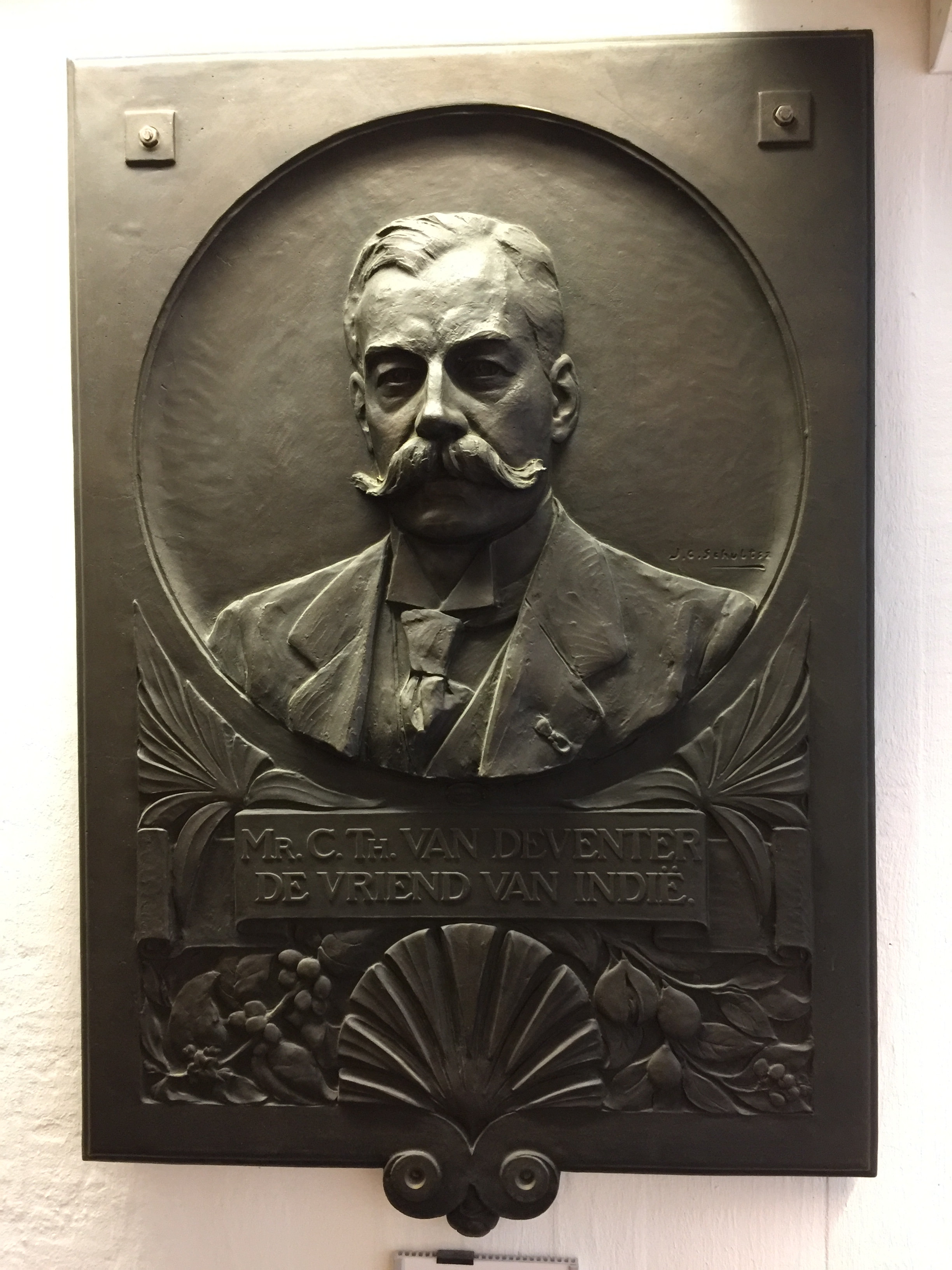 Plaque of Conrad Theodor ("Coen") van Deventer at KITLV, Leiden (the Netherlands). Text reads: "Mr. C.Th. van Deventer, vriend van Indië"